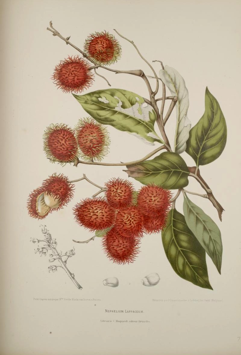 Nephelium lappaceum L. from "Fleurs, Fruits et Feuillages Choisis de l'Ile de Java" [Selected Flowers, Fruit and Foliage from the Island of Java]